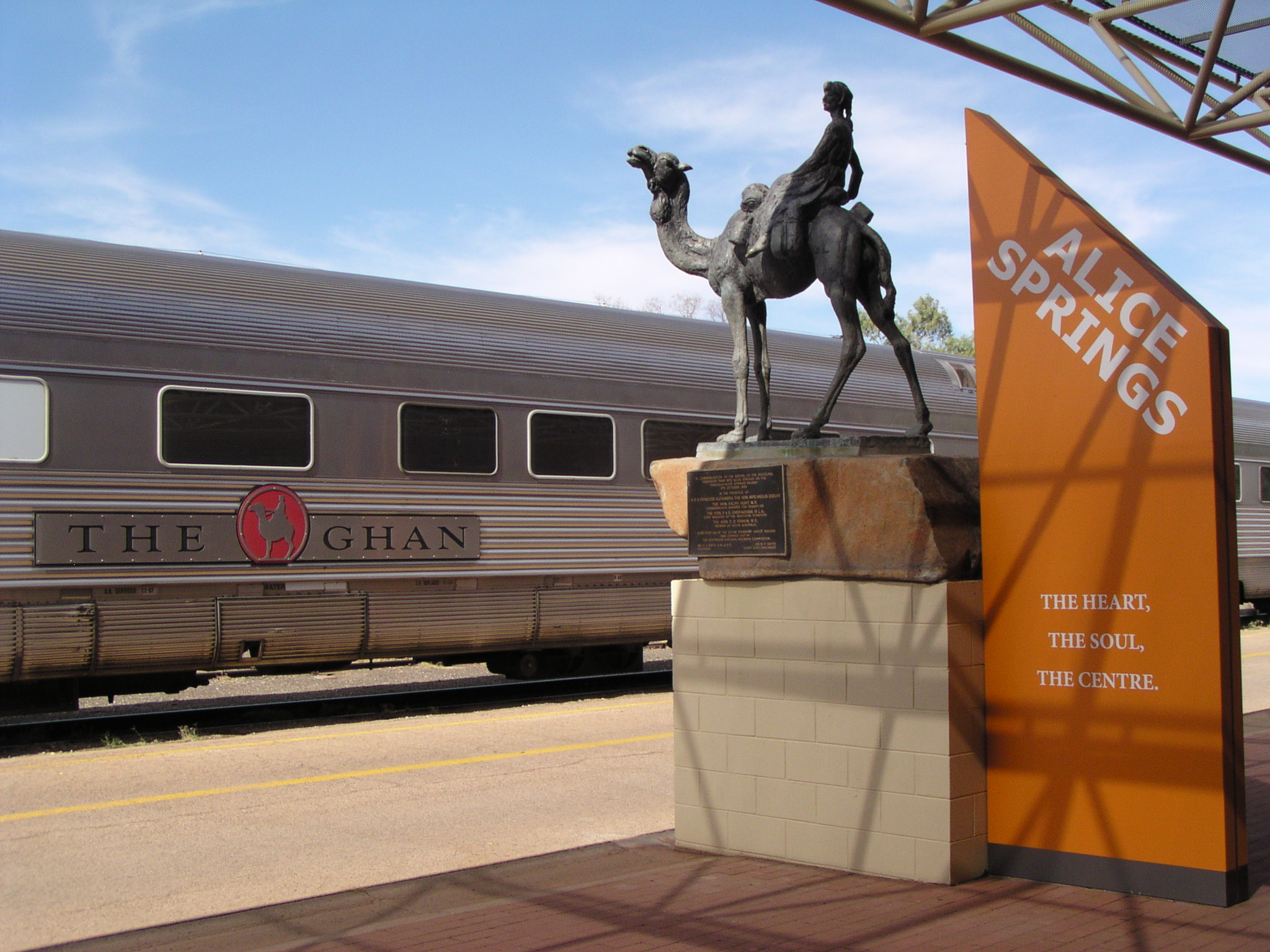 The Ghan waiting at Alice Springs station before continuing north to Darwin